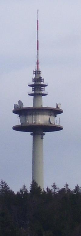 Telecommunications tower at Großerlach